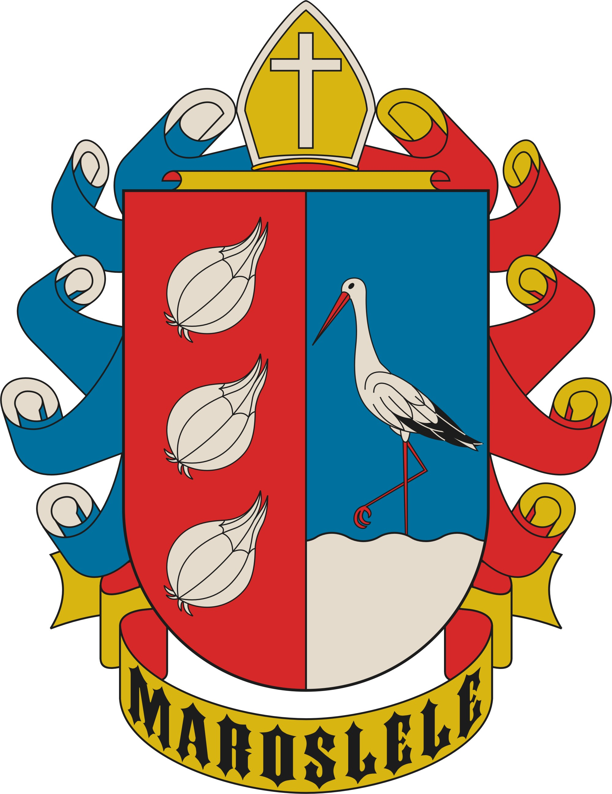 Coat of arms of Maroslele, Hungary